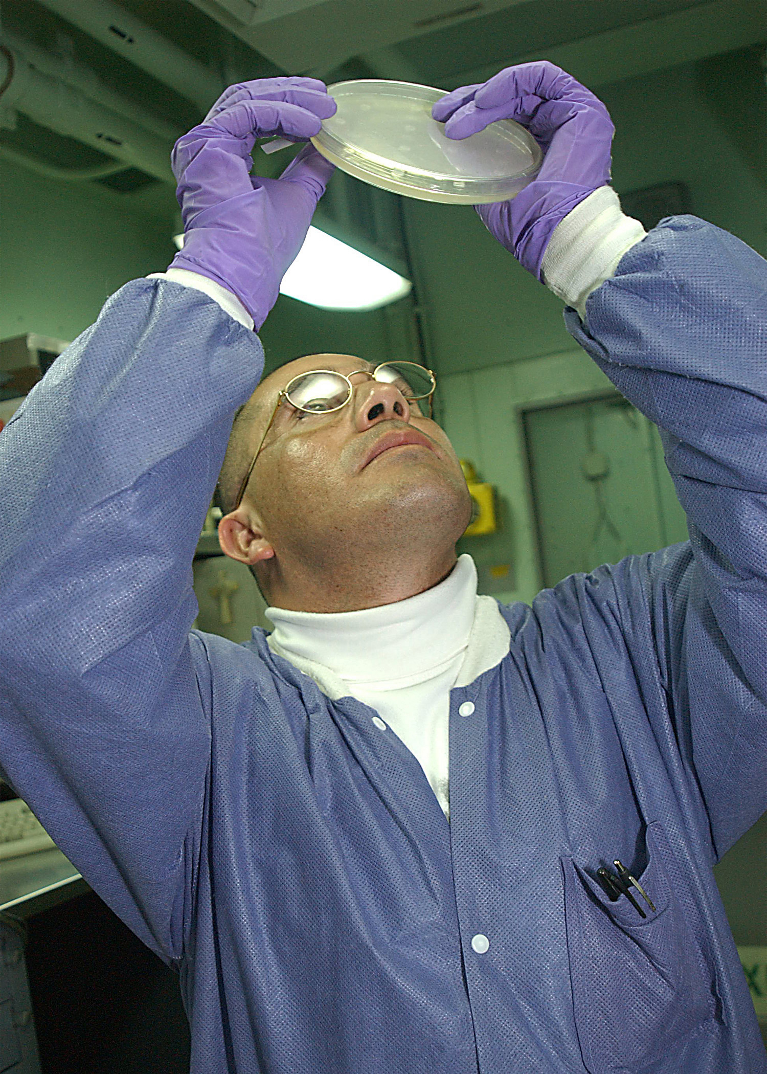 At sea aboard USS George Washington (CVN 73) Sep. 13, 2002 -- Hospital Corpsman 3rd Class Carlos Aguilar from Mexicali, Mexico, looks at bacterial growth on a petri dish in the ship's medical department. Washington is homeported in Norfolk, Va. and is on a regularly scheduled deployment conducting combat missions in support of Operation Enduring Freedom. U.S. Navy photo by Photographer's Mate Airman Jessica Davis. (RELEASED)